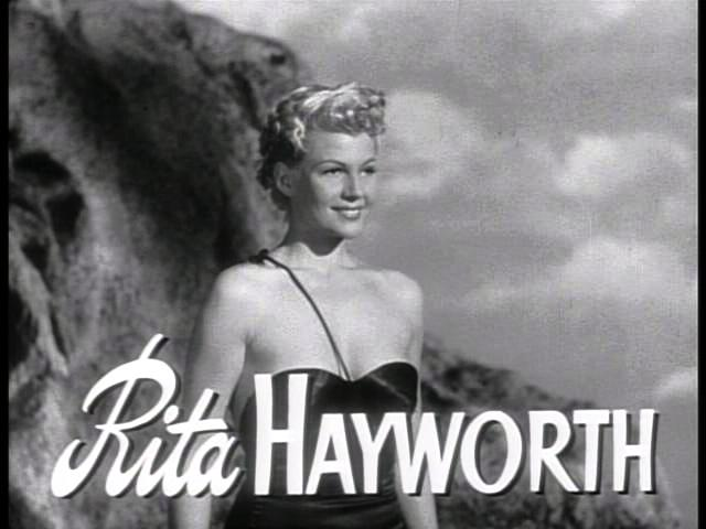 Rita Hayworth in The Lady from Shanghai trailer